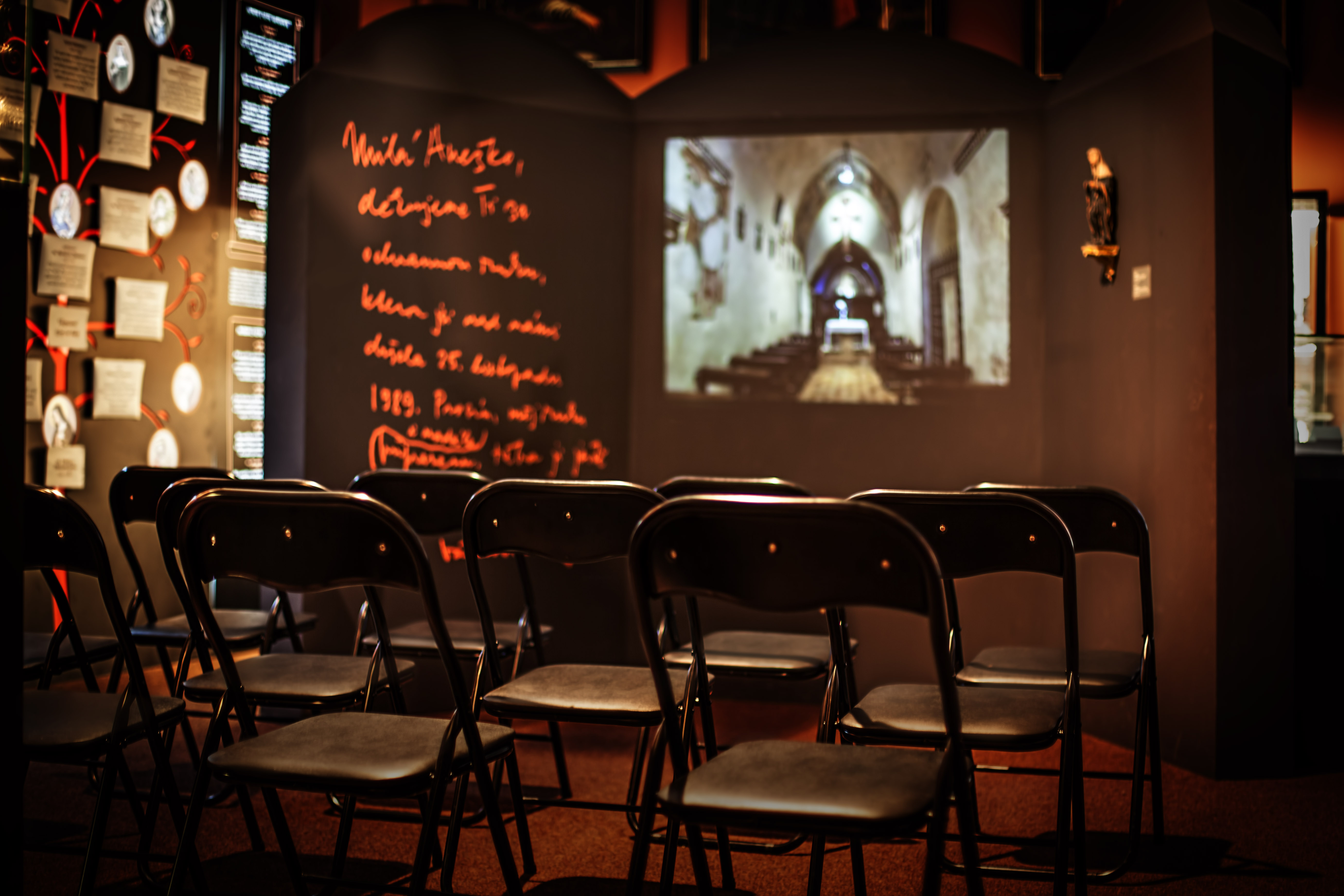 Museum of Charles Bridge